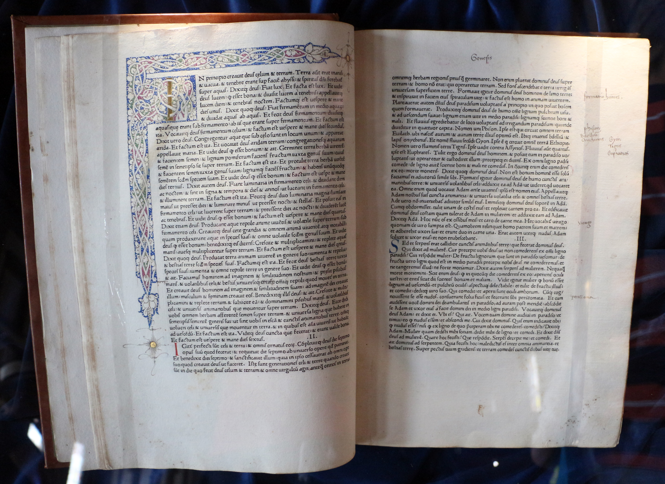 Biblioteca Medicea Laurenziana